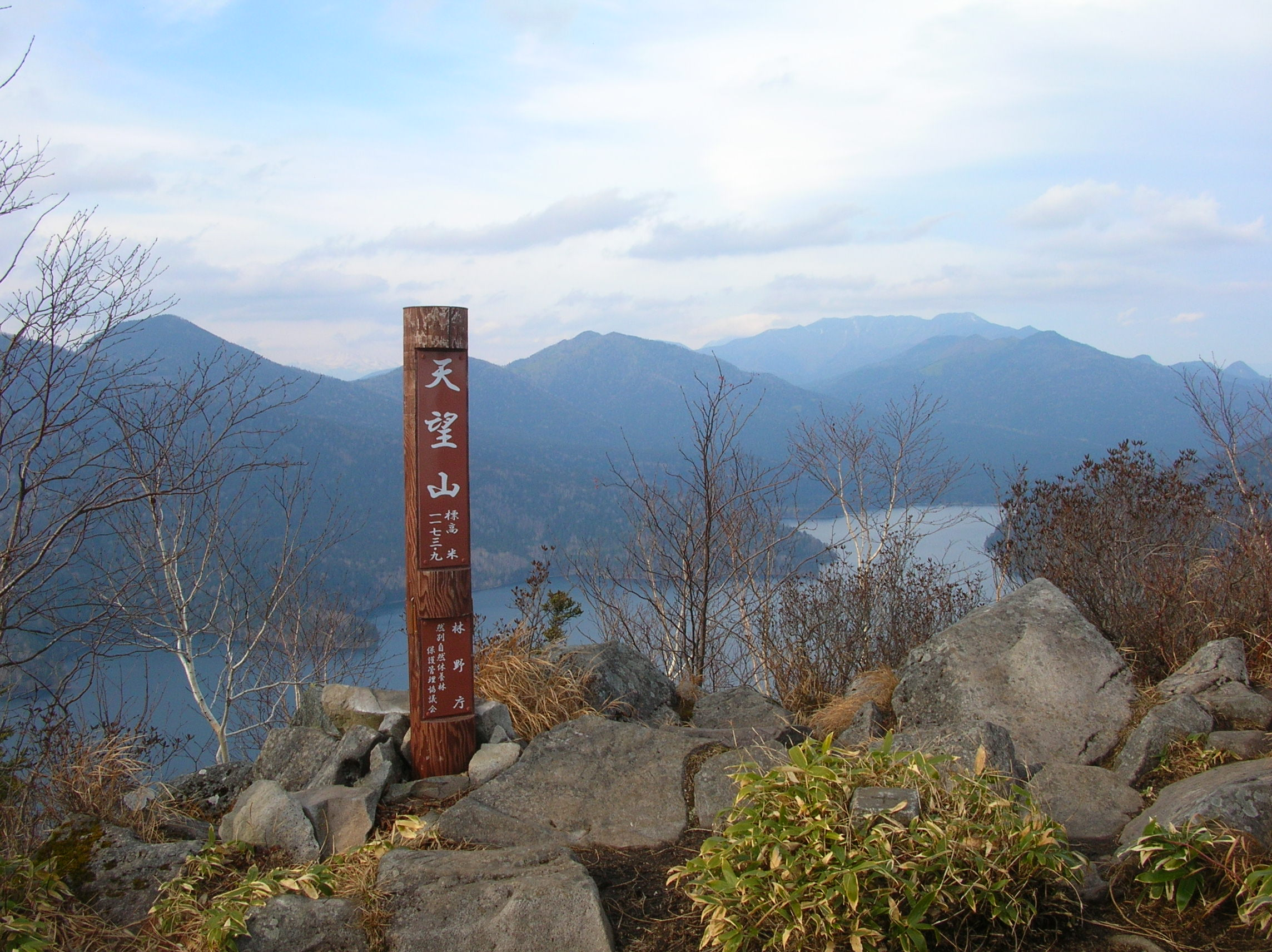 天望山からの眺望 （Viewed from Mt.Tenbo）